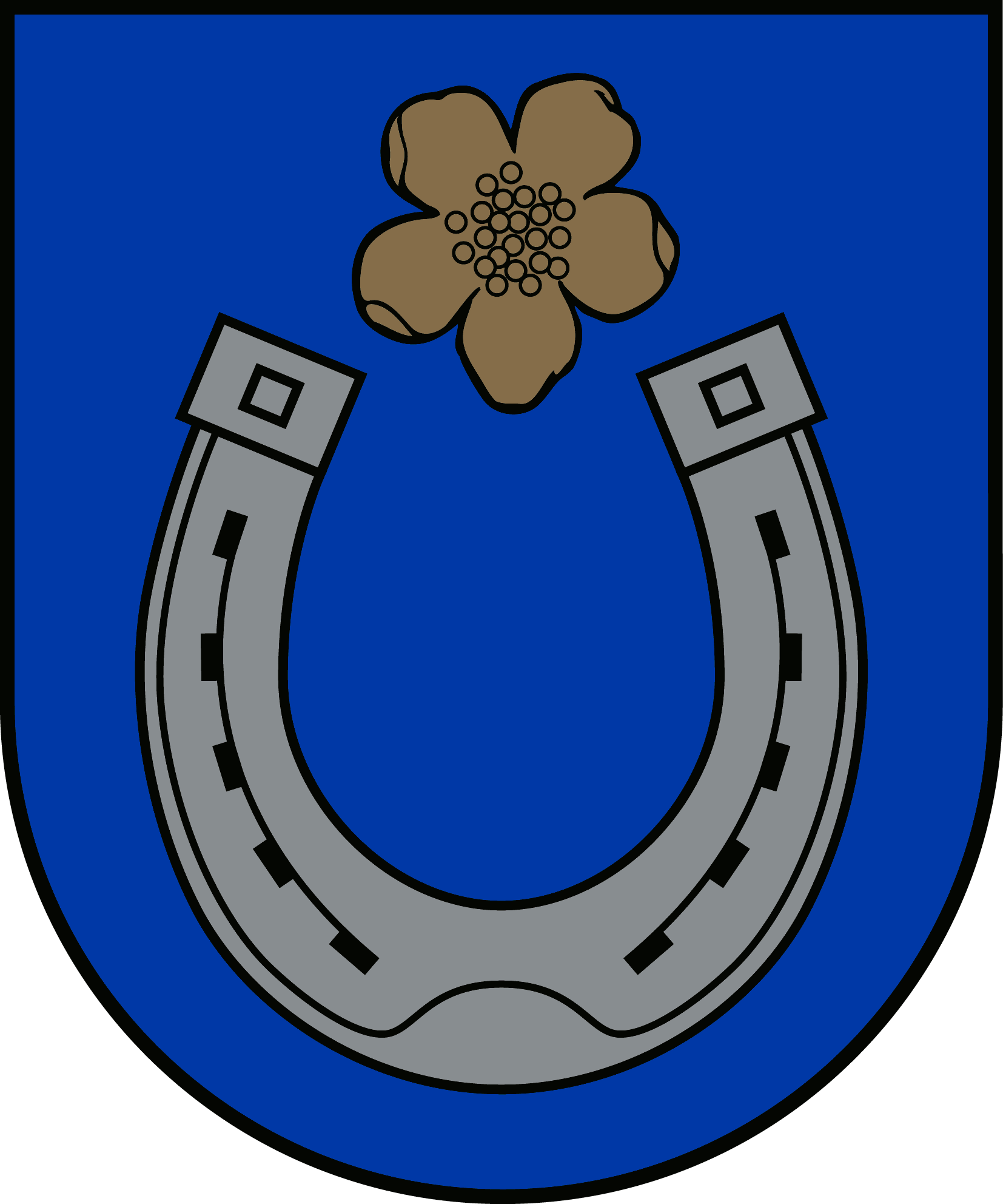 Coat of arms of Cibla Municipality, Latvia